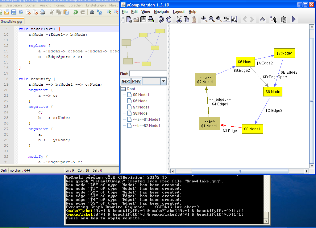 Screenshot of graph rewrite tool , pattern match, while generating Koch snowflake.